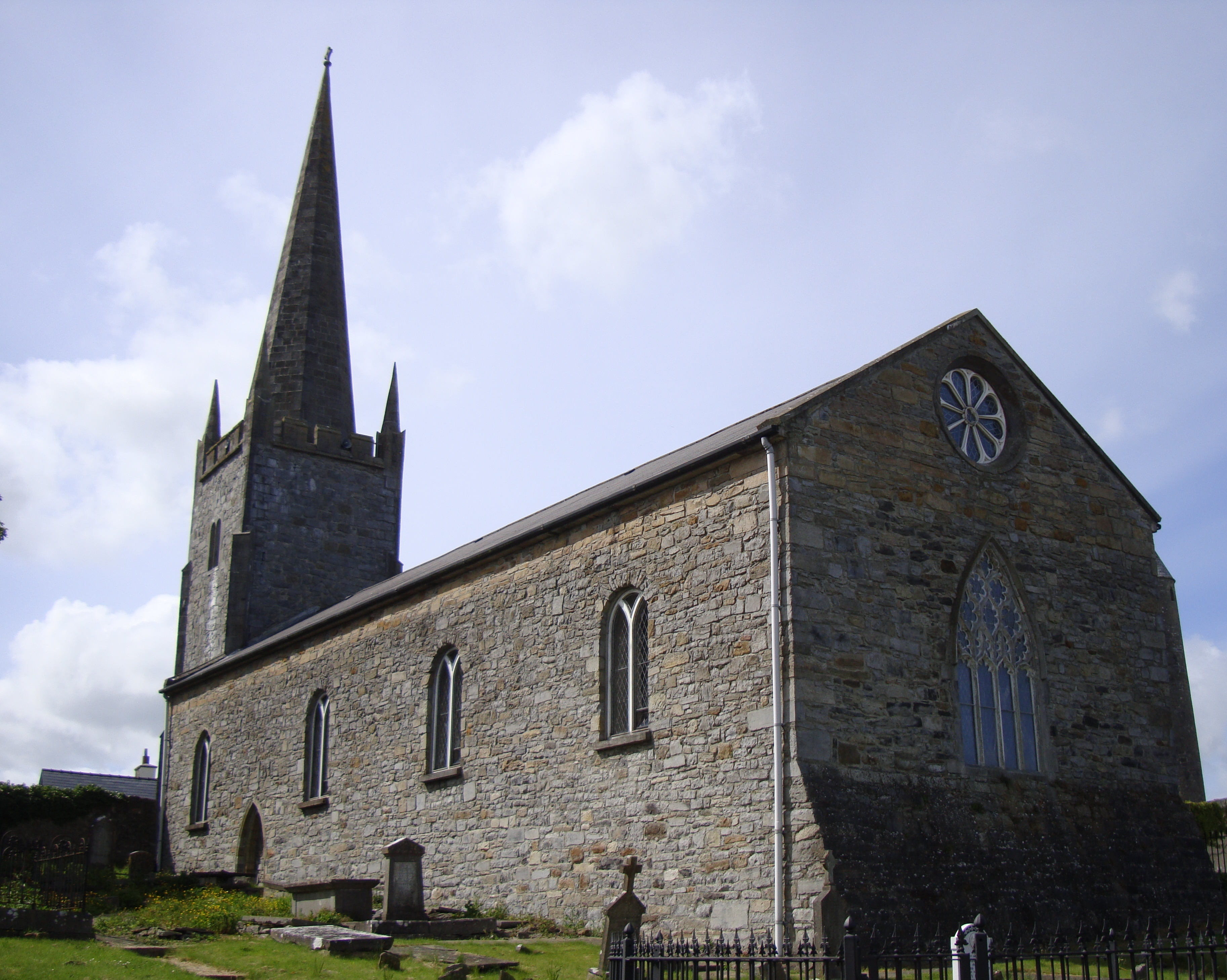 Photograph of Killala Cathedral, Co. Mayo, Ireland